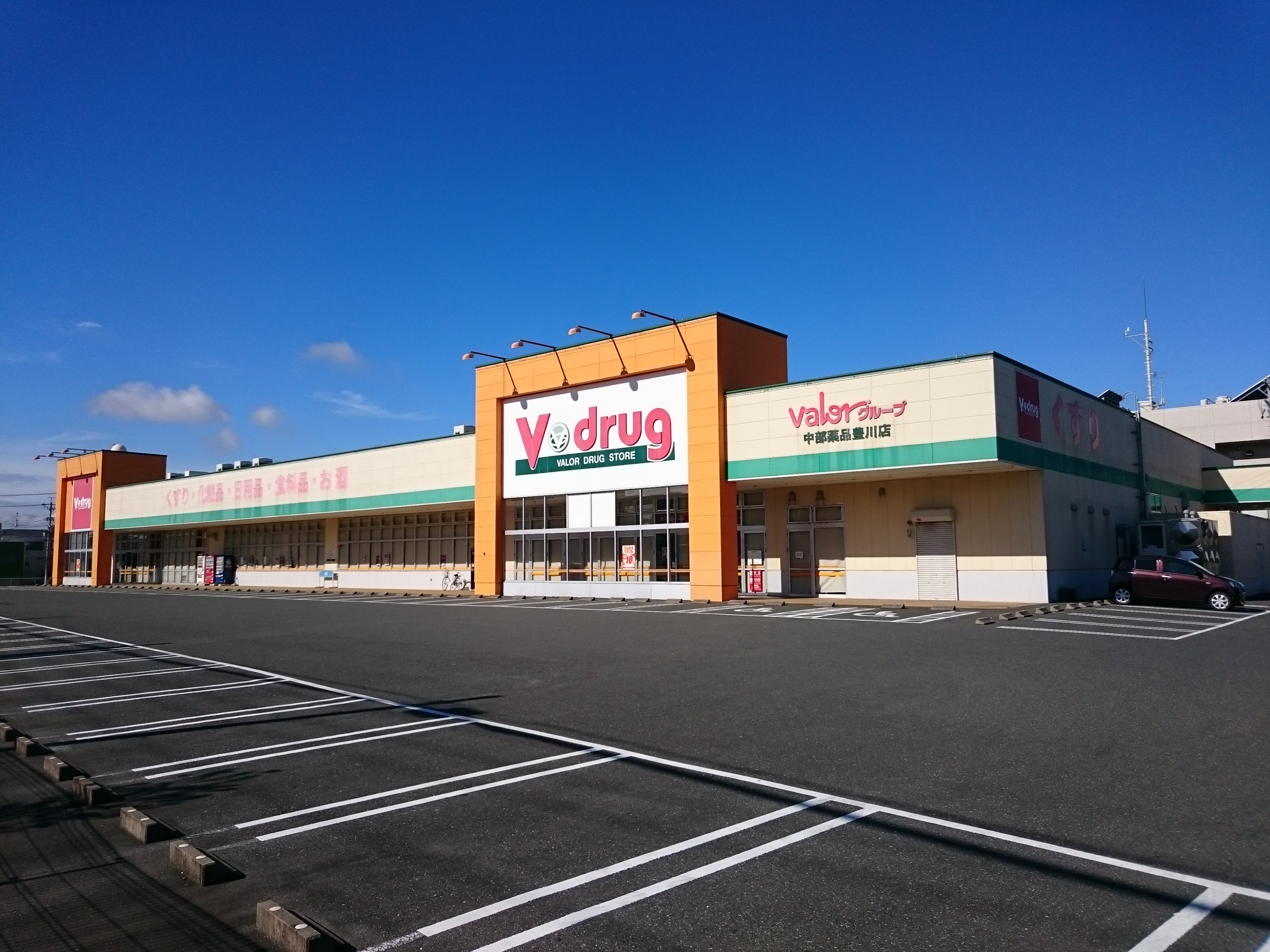 V-drug Toyokawa (V・drug豊川店 Bui Doraggu Toyokawaten), located at 4-179 Suwa, Toyokawa, Aichi, Japan